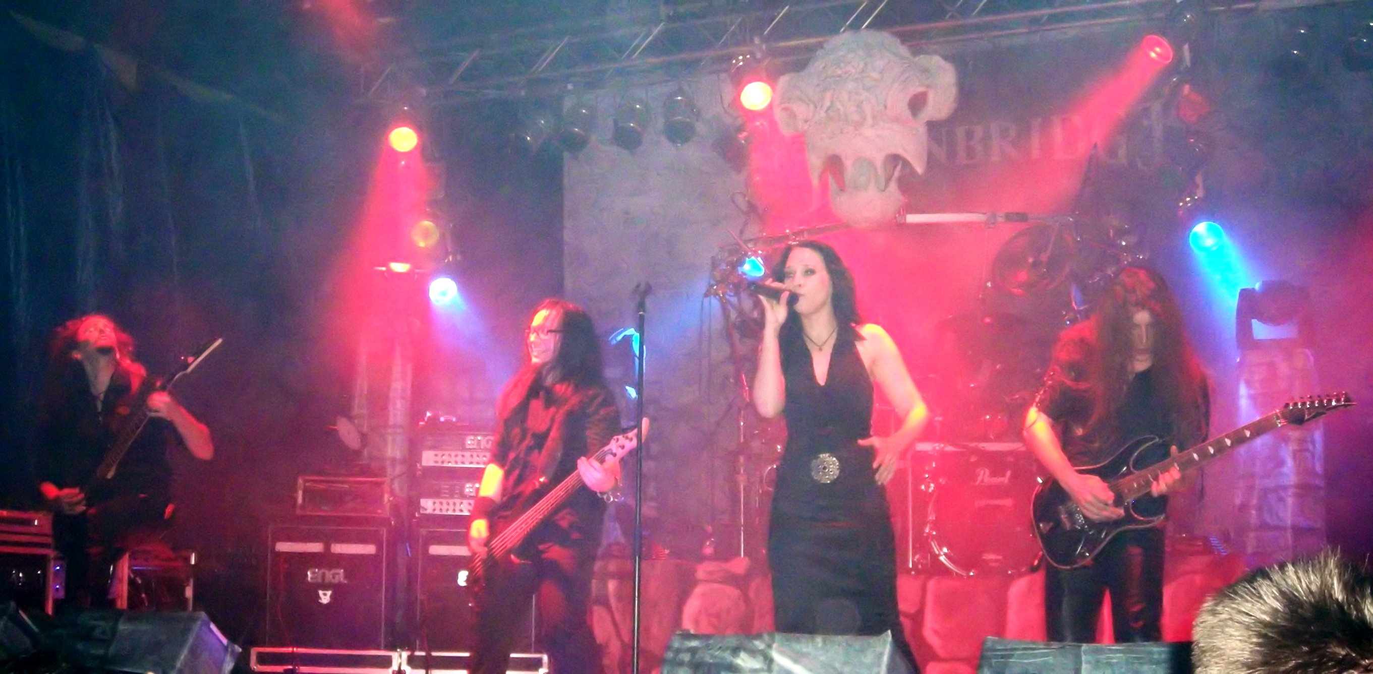 Symphonic metal band Edenbridge in Plzen, Poland.